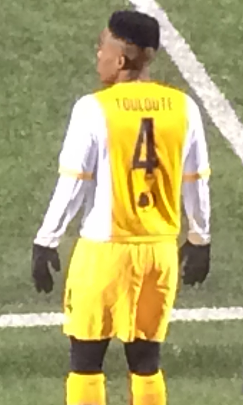 Max Touloute with Riverhounds during 2015 season opener against Harrisburg City Islanders